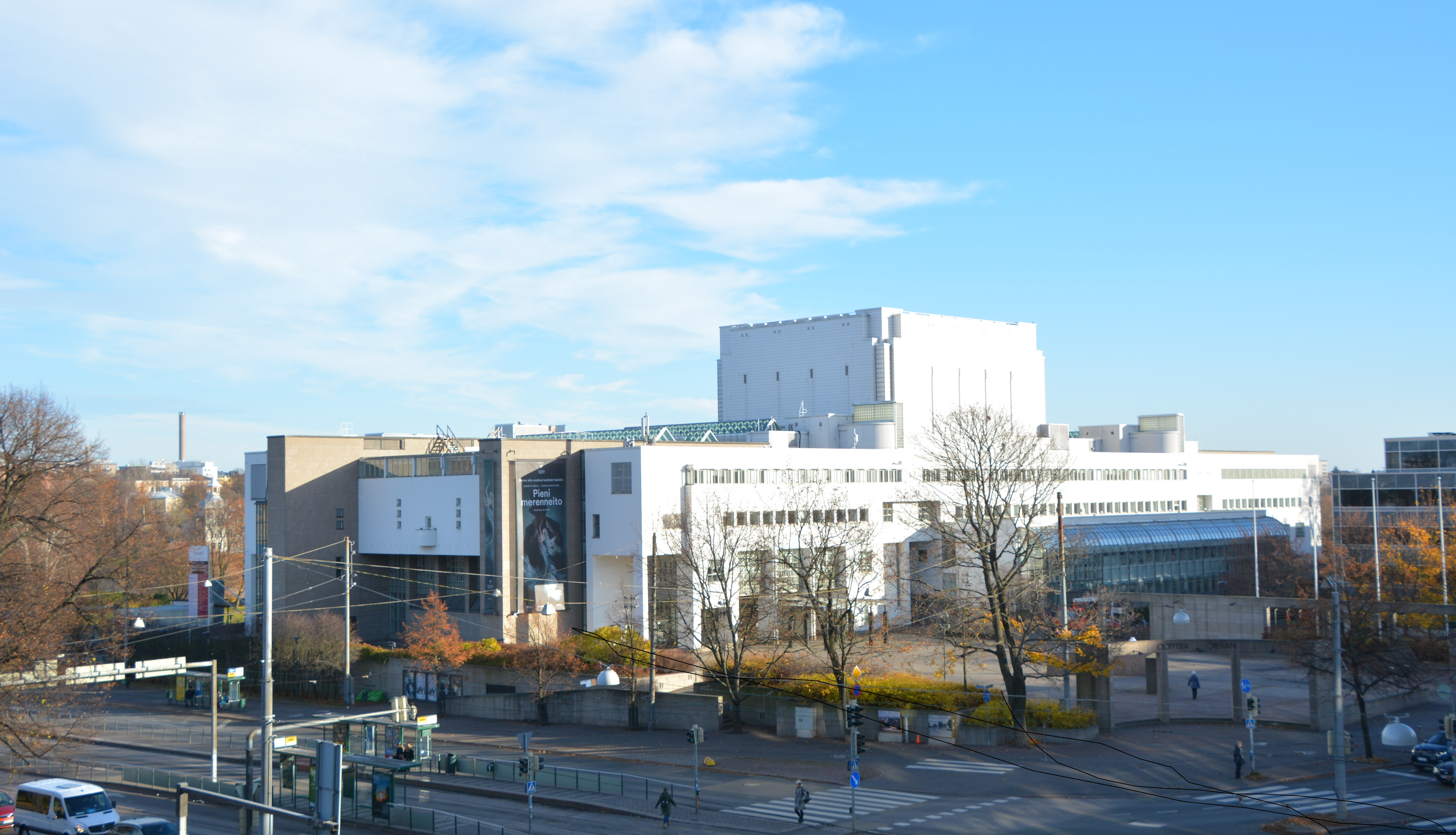 Finland's National Opera, seen from Mannerheimtie